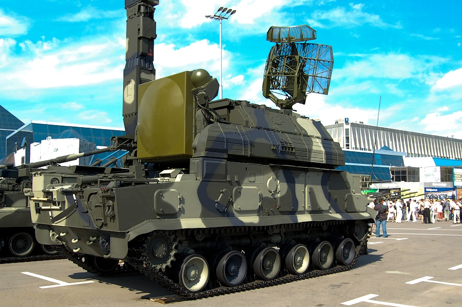 A Russian Tor-M1 SAM in 2008.